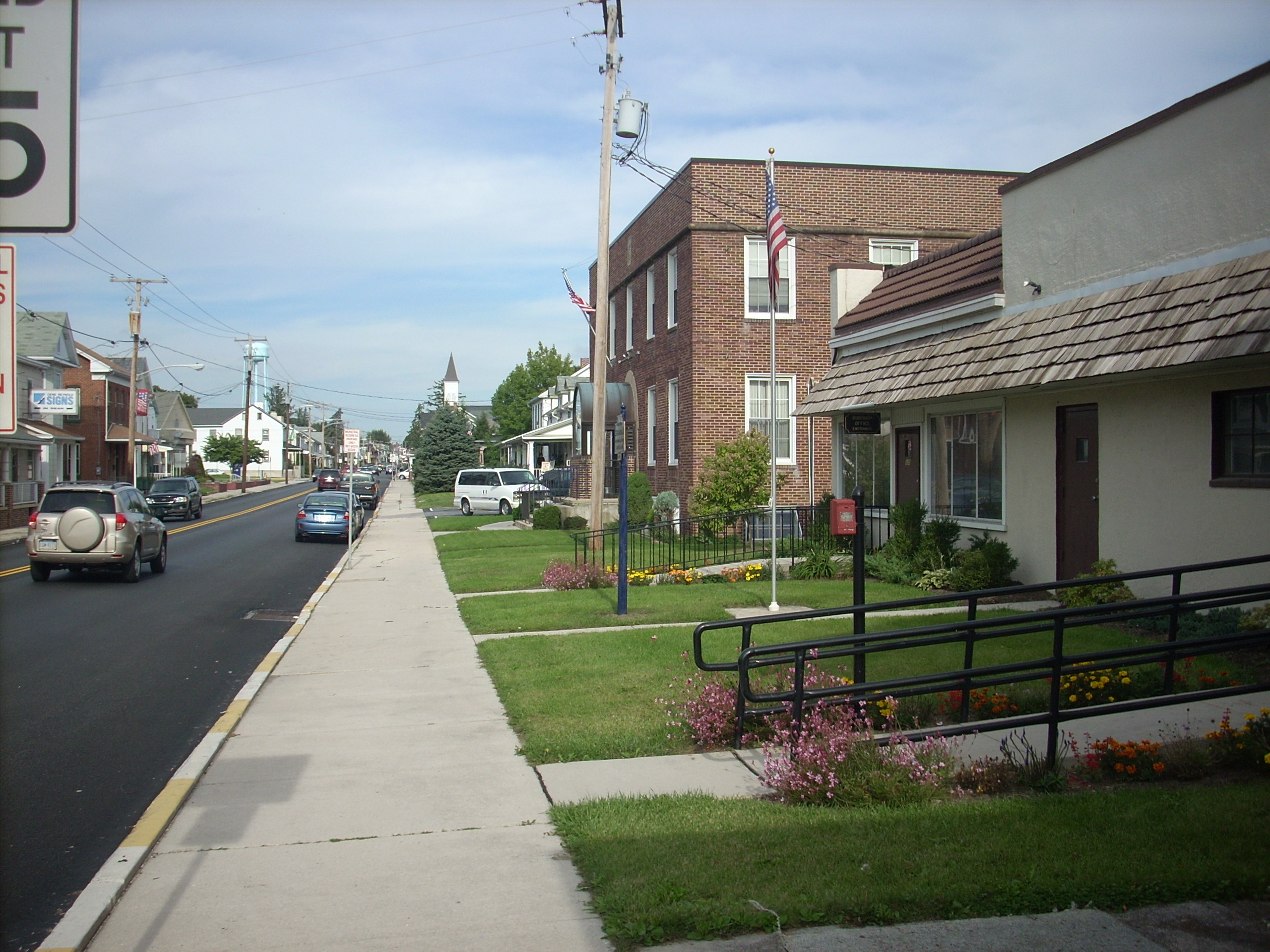 Route 116 as it passes through McSherrystown